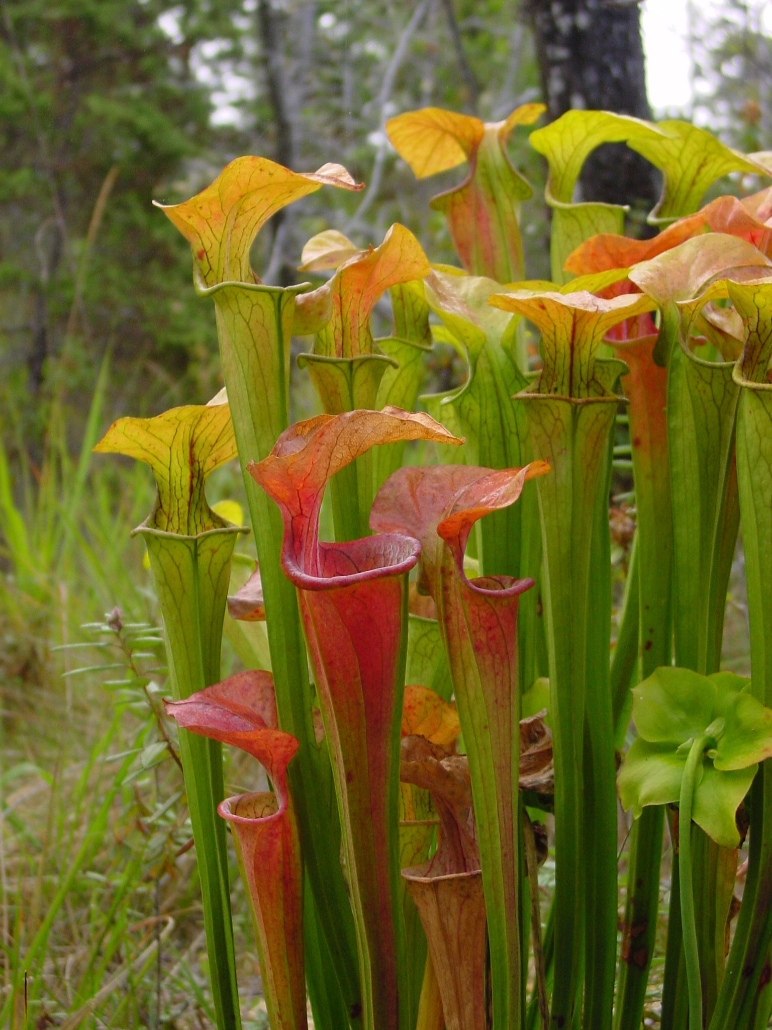 Description:Sarracenia oreophila Photo taken by: Noah Elhardt